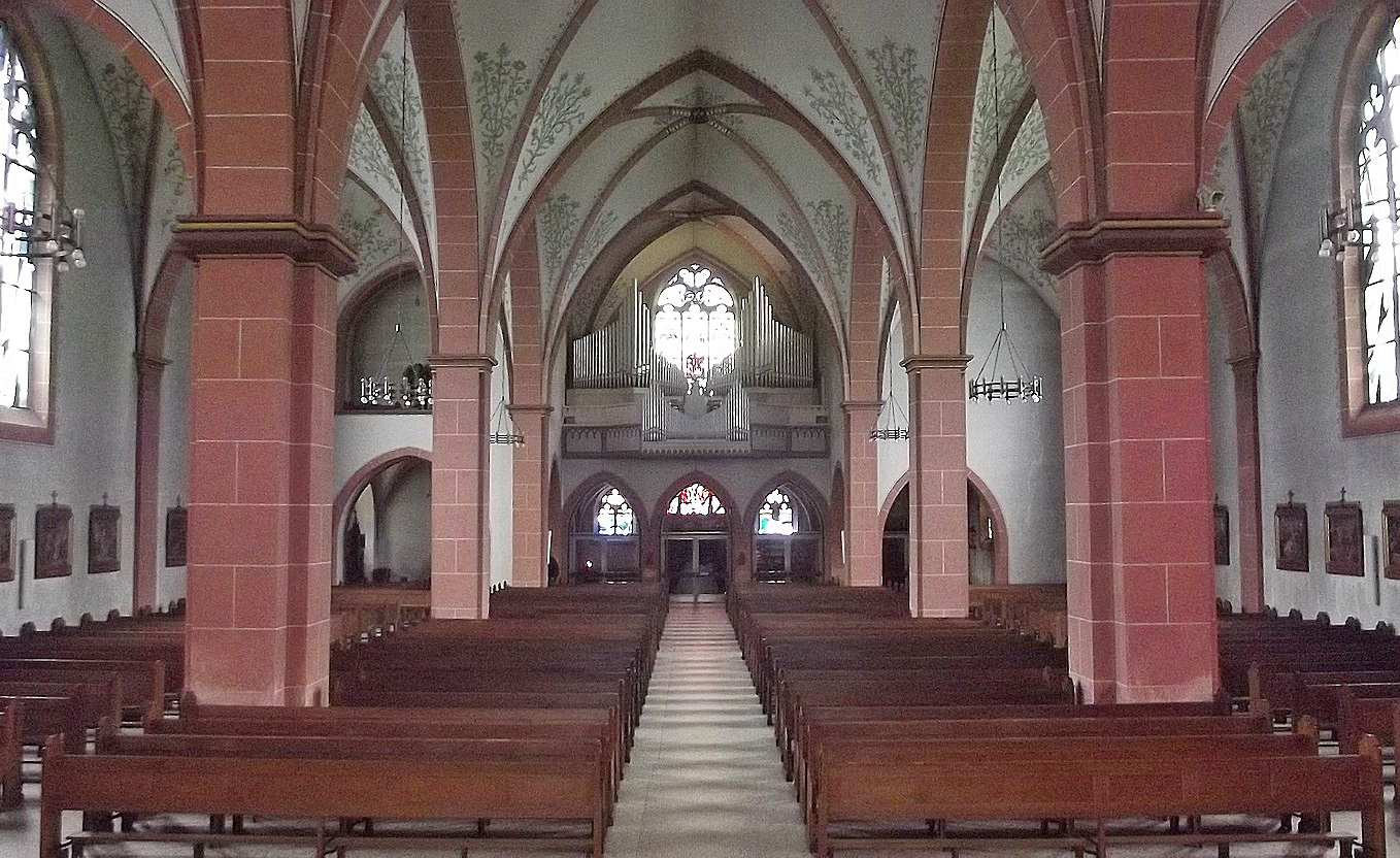 Interior of the roman catholic church in Oberthal, Saarland